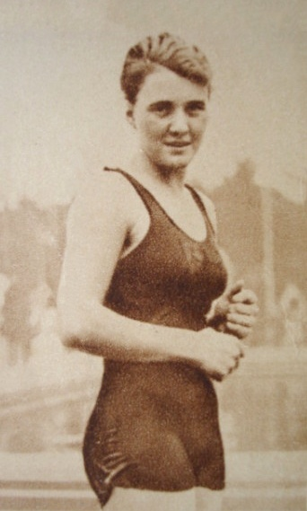 Anni Rehborn, Freistil und Rückenschwimmen. Anonymous, photocard without visible copyright signs